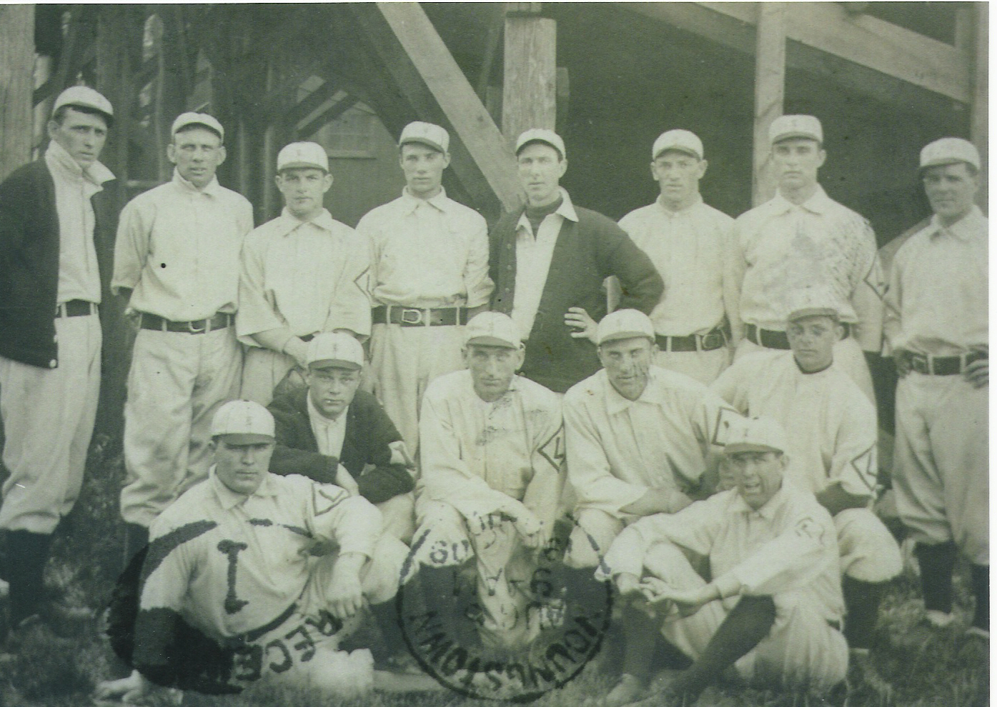 Description: Lancaster Red Roses Source: Private Collection Date: 1909 Author: Unknown Permission: Public Domain